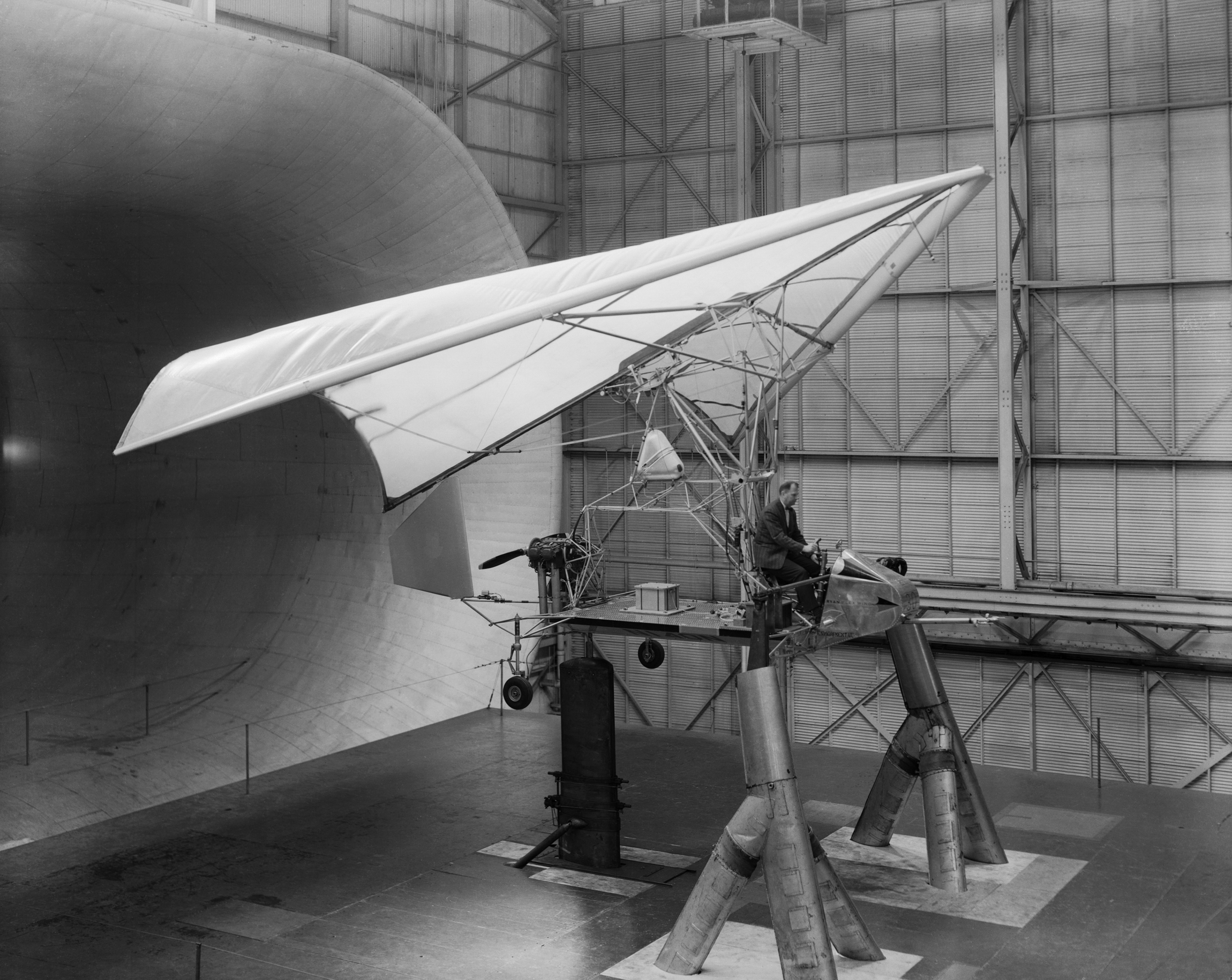 Full scale of XV-8A Fleep prototype, a flexible wing aircraft built by Ryan, was flown in the Full Scale Tunnel.